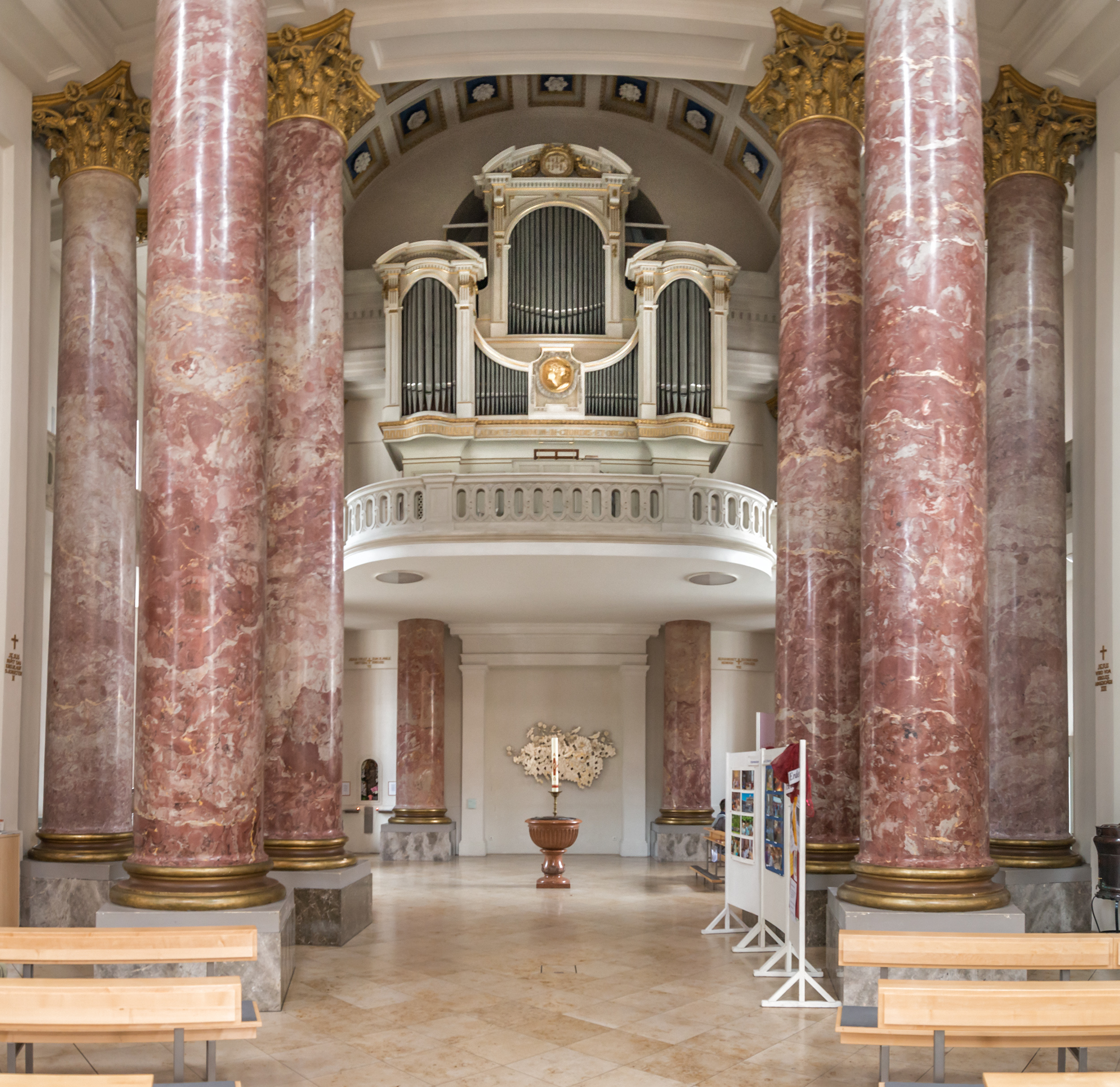 This is a photograph of an architectural monument.